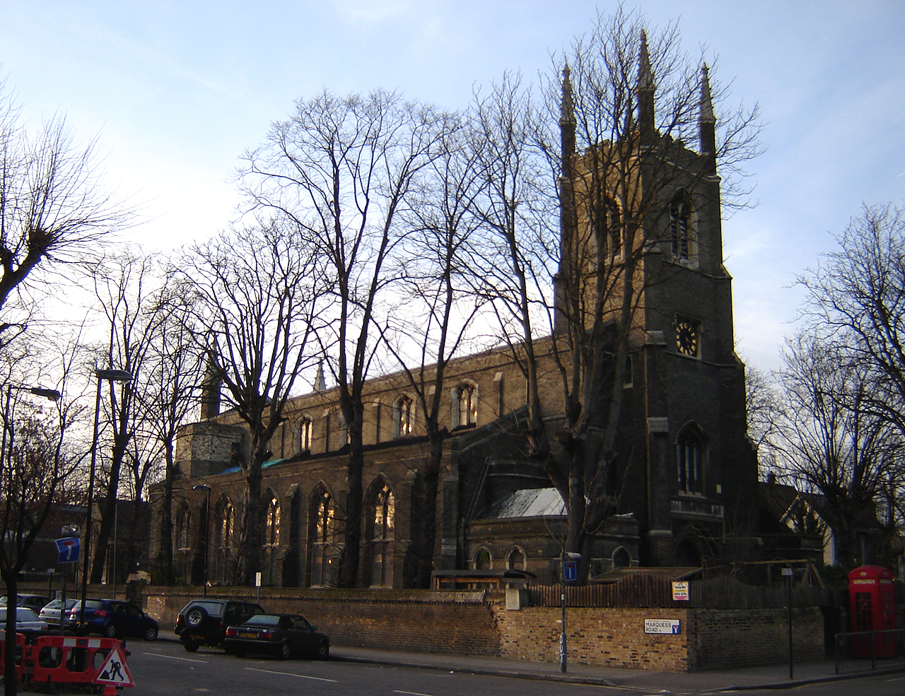 The former St Paul's parish church, Canonbury, London N1, seen from the southeast